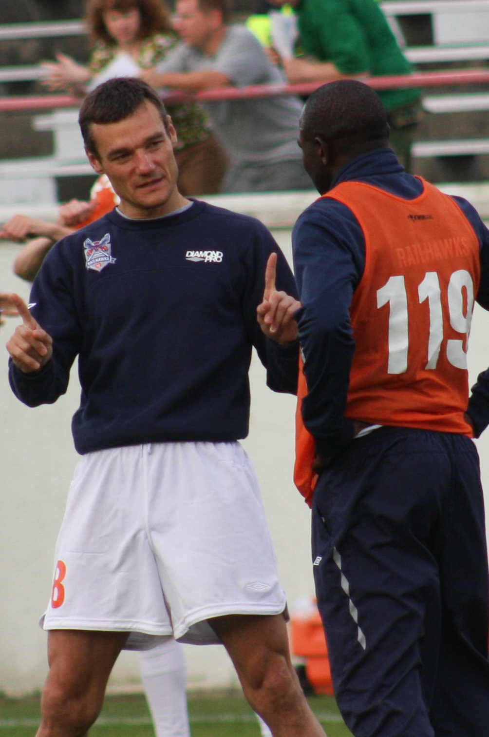 Coach Richard Huxford and soccer player Hamed Diallo with Carolina RailHawks